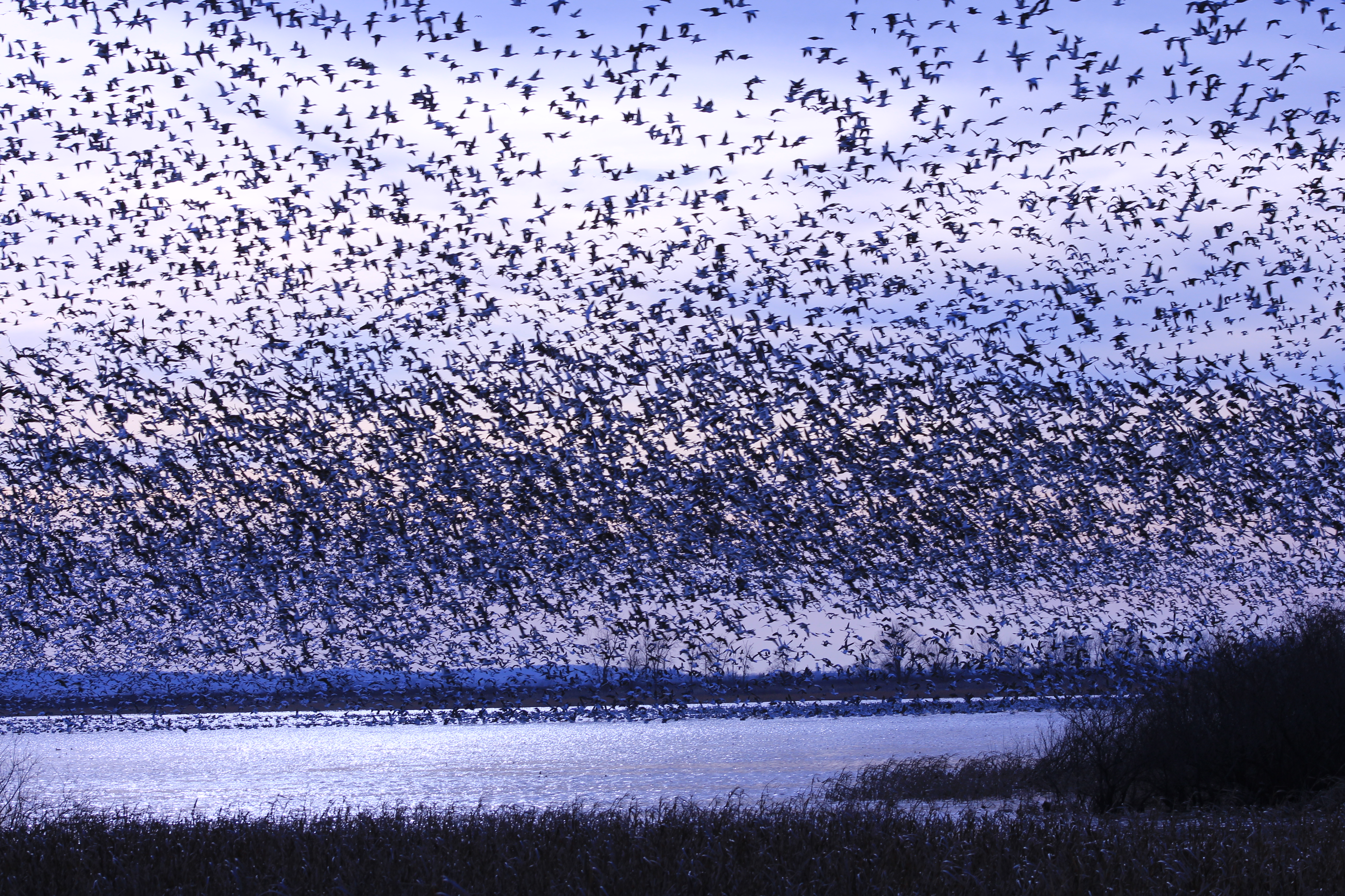 An early migration north for snow geese, as seen at Squaw Creek National Wildlife Refuge in northwest Missouri on February 17th, 2013. Days later, the geese turned back south with the onset of the February 2013 Great Plains blizzard.